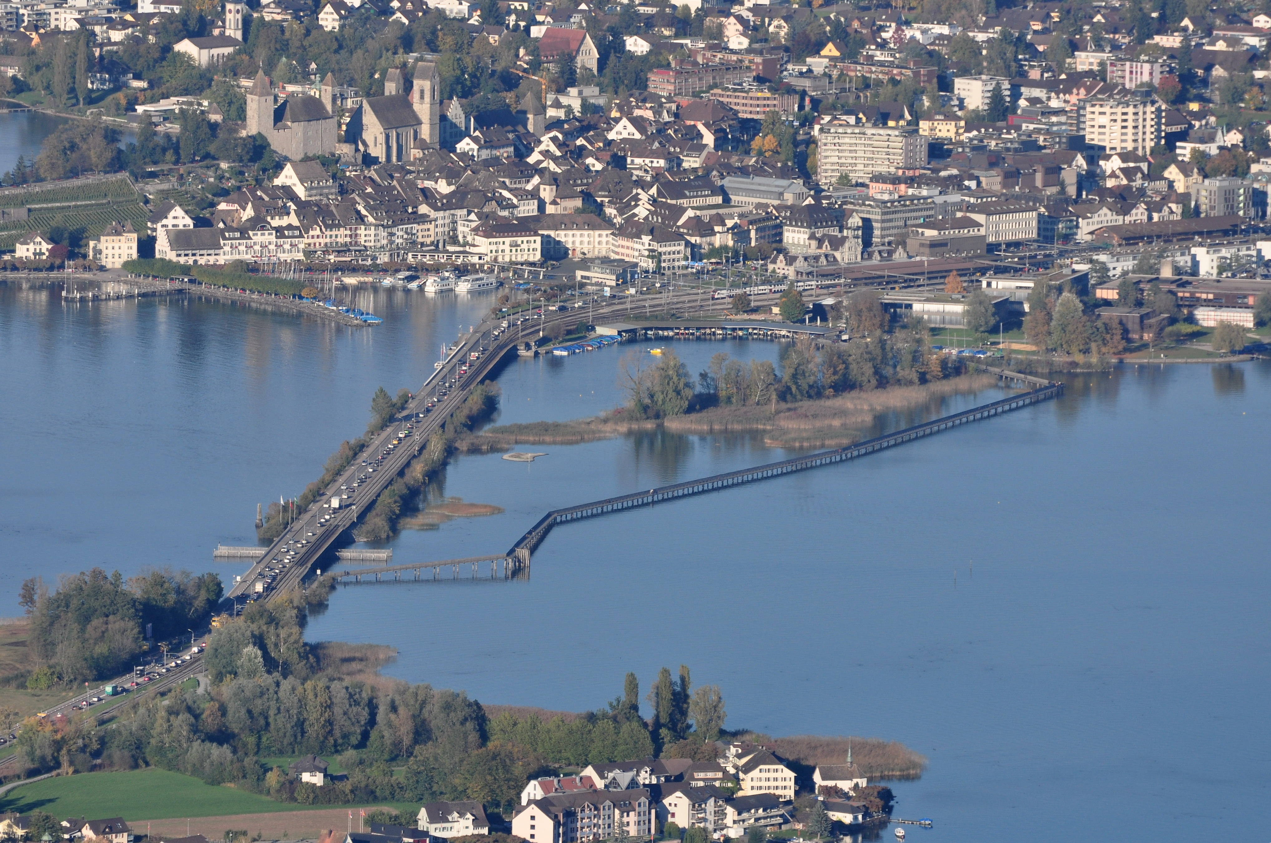 View from Etzel Kulm in Switzerland, focus on Rapperswil – Kempraten to the left, Jona to the right : Seedamm and Holzbrücke, Zürichsee to the left, Obersee to the right, Hurden in the foreground.